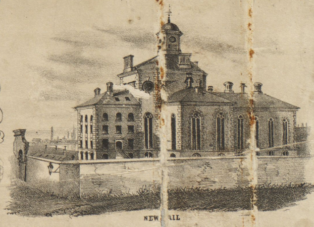 Boston, 1852. Detail from: Henry McIntyre's "Map of the City of Boston and Immediate Neighborhood." (Published by H. McIntyre, No.17 Doane St., Boston, & N.E. Cor. of Perry & Pine Sts. Philadelphia, 1852. Friend & Aub lith. Wagner & McGuigan's Steam Lith. Press, Philadelphia).